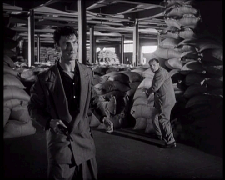 Panic in the Streets is a black and white, 96-minute film directed by Elia Kazan and released in 1950 by 20th Century Fox. It is film noir semidocumentary shot exclusively on location in New Orleans, Louisiana.